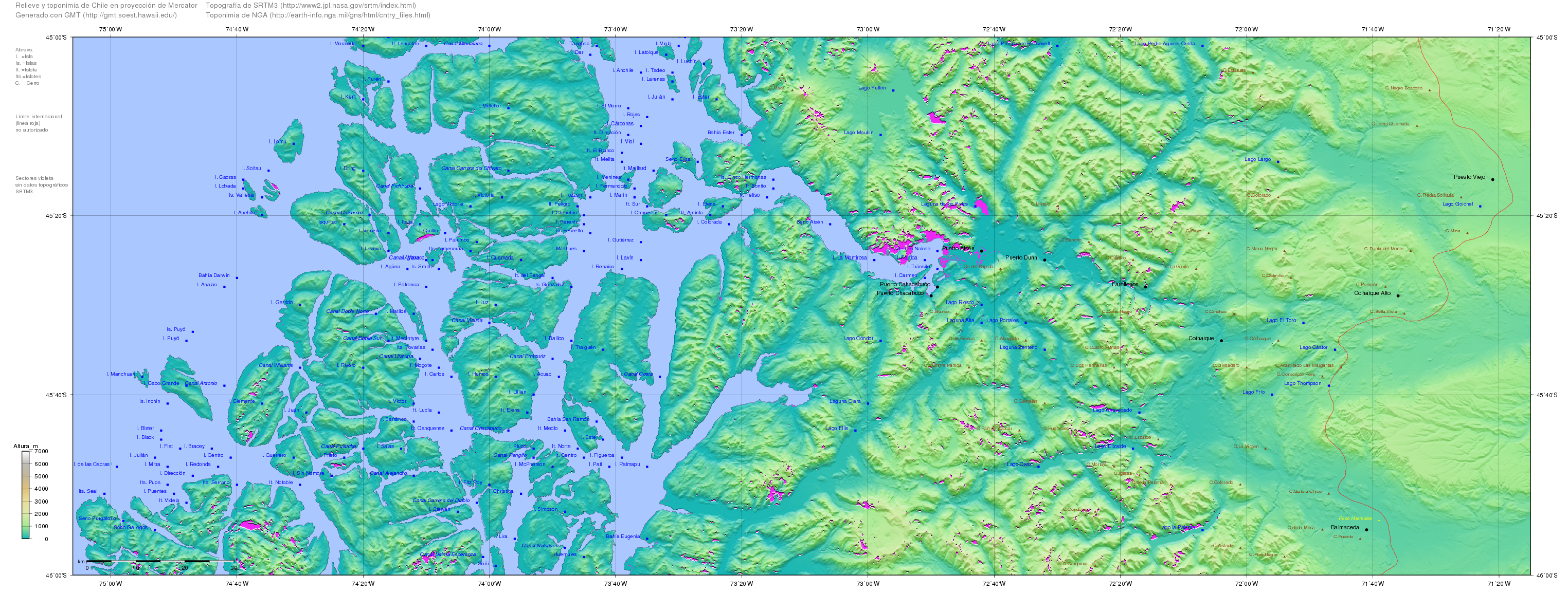 Map of Chile generated with GMT ( topography from SRTM ftp://e0srp01u.ecs.nasa.gov/srtm/version2/SRTM3/ and toponymy from